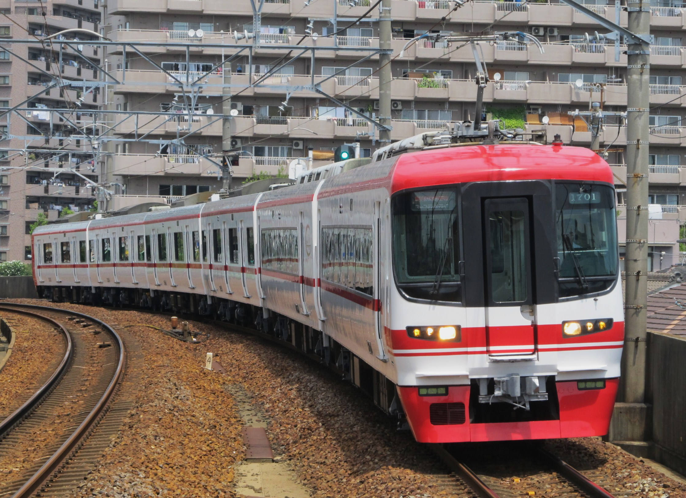 Meitetsu 1700 series EMU set 1701 on a Tokoname Line Limited Express service for Central Japan International Airport